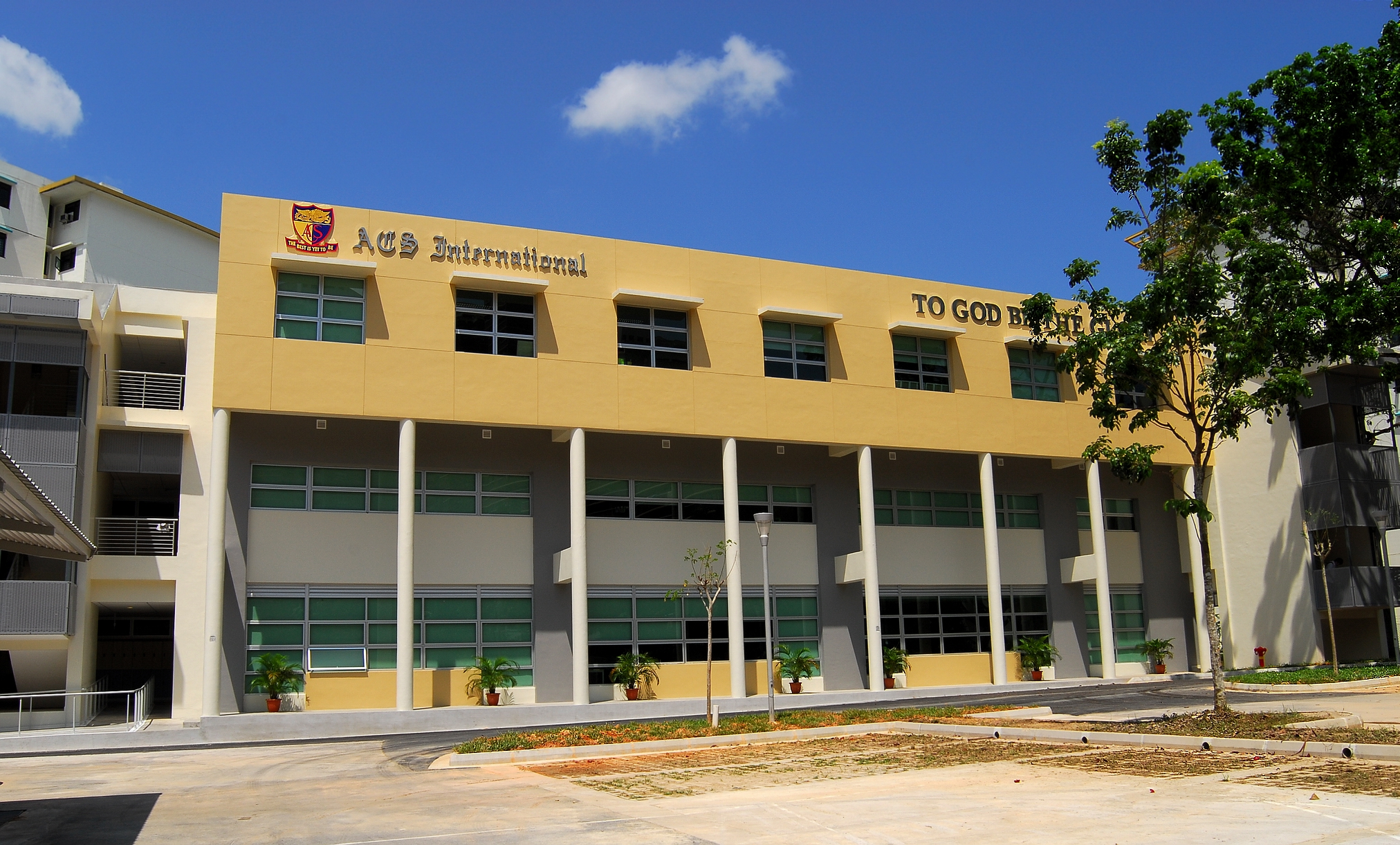 The new classroom block at Anglo-Chinese School (International), Singapore.